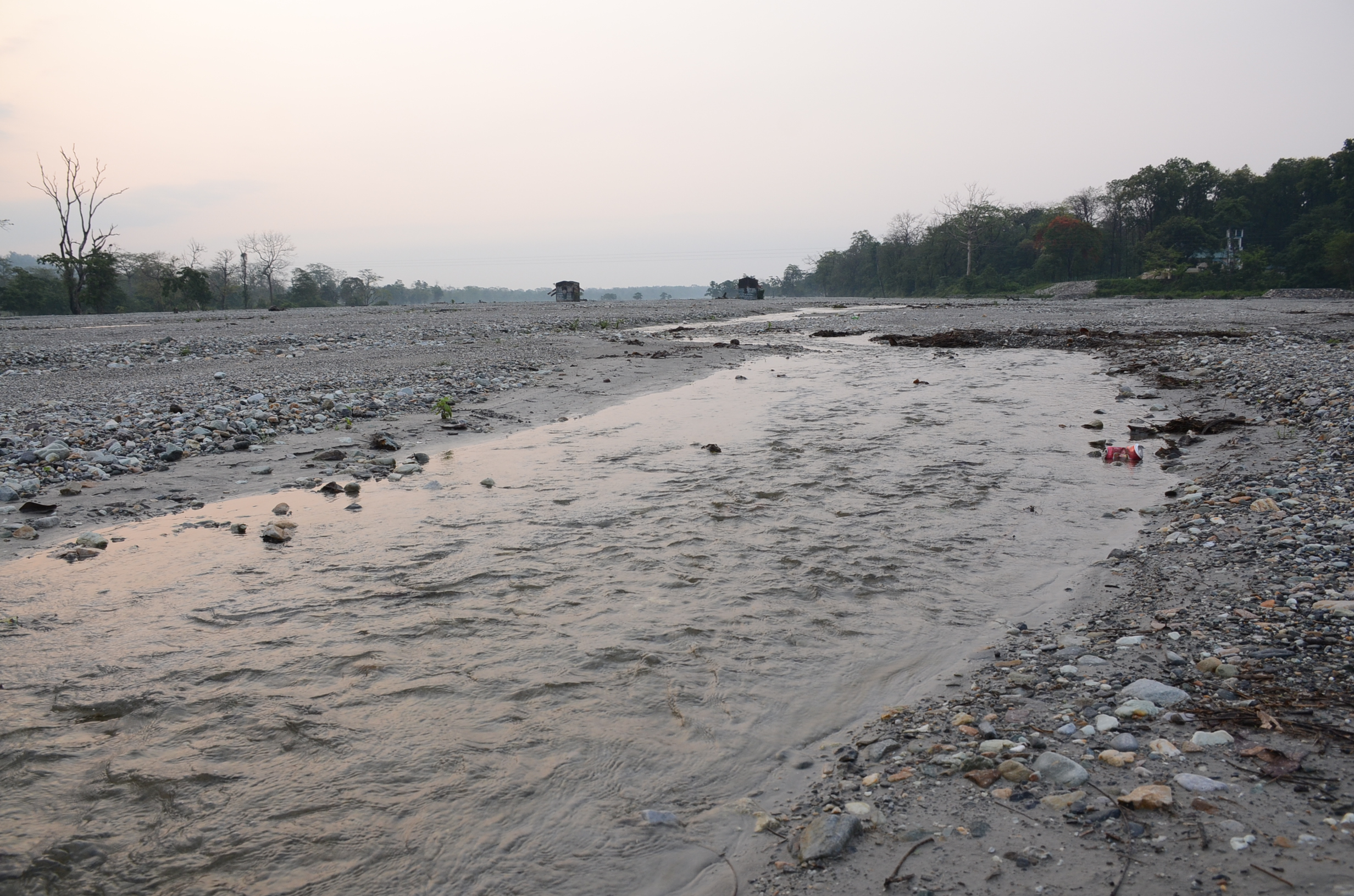 This image was taken in the project Wiki Loves Butterfly. The Jayanti river.